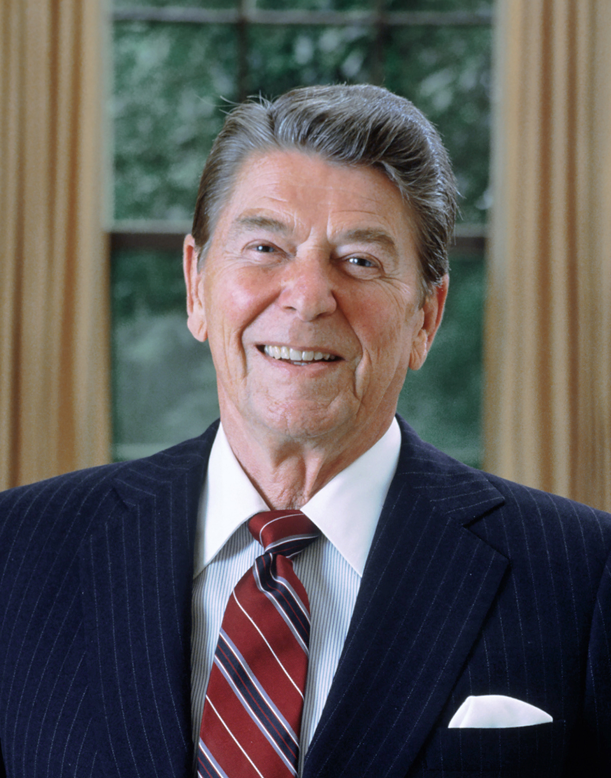 Ronald Reagan's presidential portrait in 1985